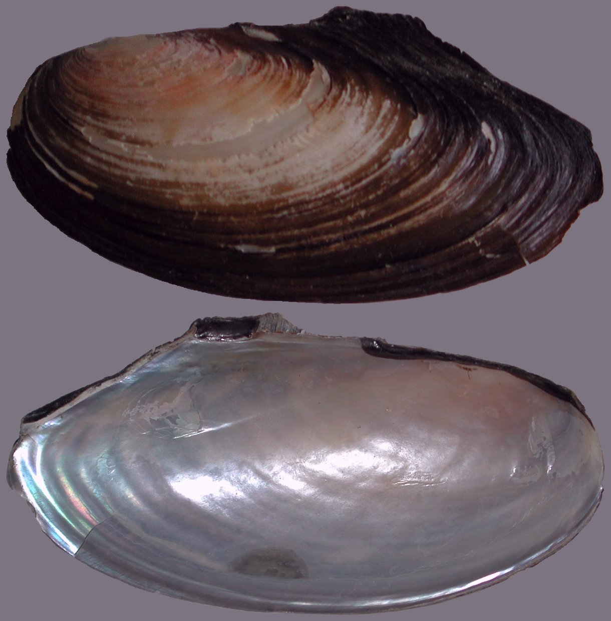 Depressed river mussel (Pseudanodonta complanata). Left valve, outside and inside. Adult specimen, Length: 68 mm. Washed ashore at Lake IJssel near the 'Poelsluis' ('Pond Sluice'), South of the town of Medemblik. 1972 (Private collection T.M.).